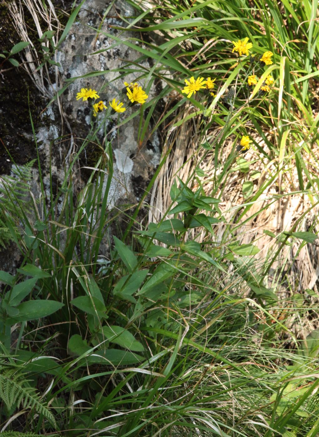 Flowering Hieracium prenanthoides in Labský důl Valley, Krkonoše, Czech Republic